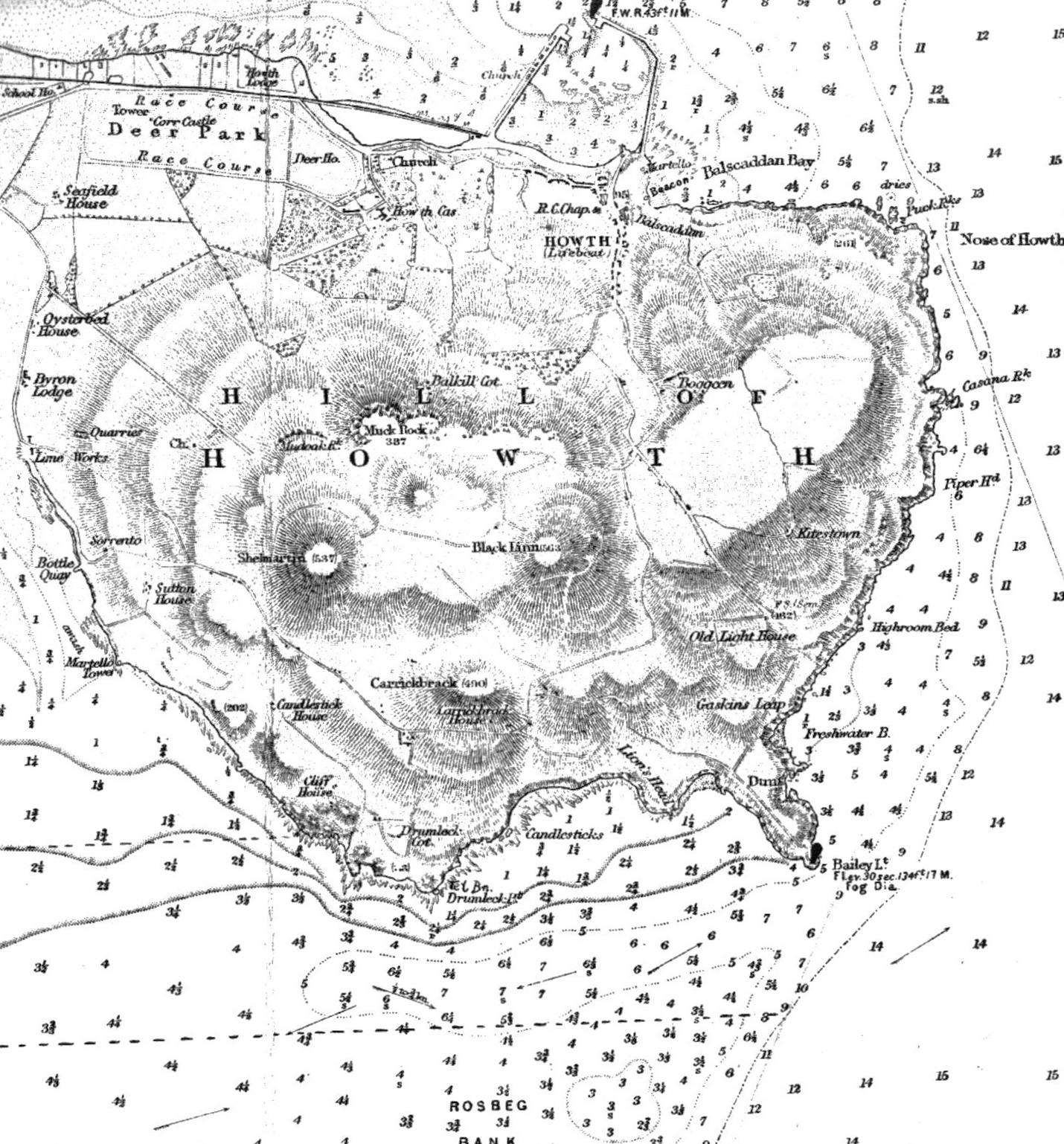 Howth Head, the peninsula at the north of Dublin Bay, as surveyed by the UK Admiralty, showing high points including Black Linn, Shelmartin and Carrickbrack, Howth village and harbour, and Estate, major buildings, roads, and various natural and nautical features, including sea depths. Public domain, scanned by contributor.